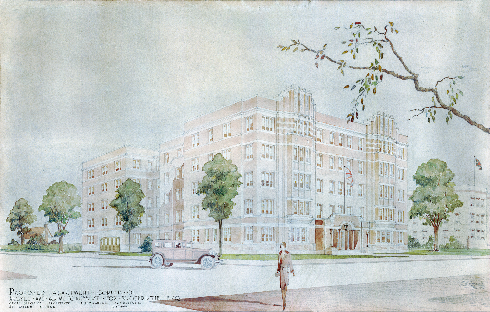 Reproduction of original 1929 artist rendering of the Windsor Arms Apartments, 150 Argyle Avenue, Ottawa, Ontario, Canada.